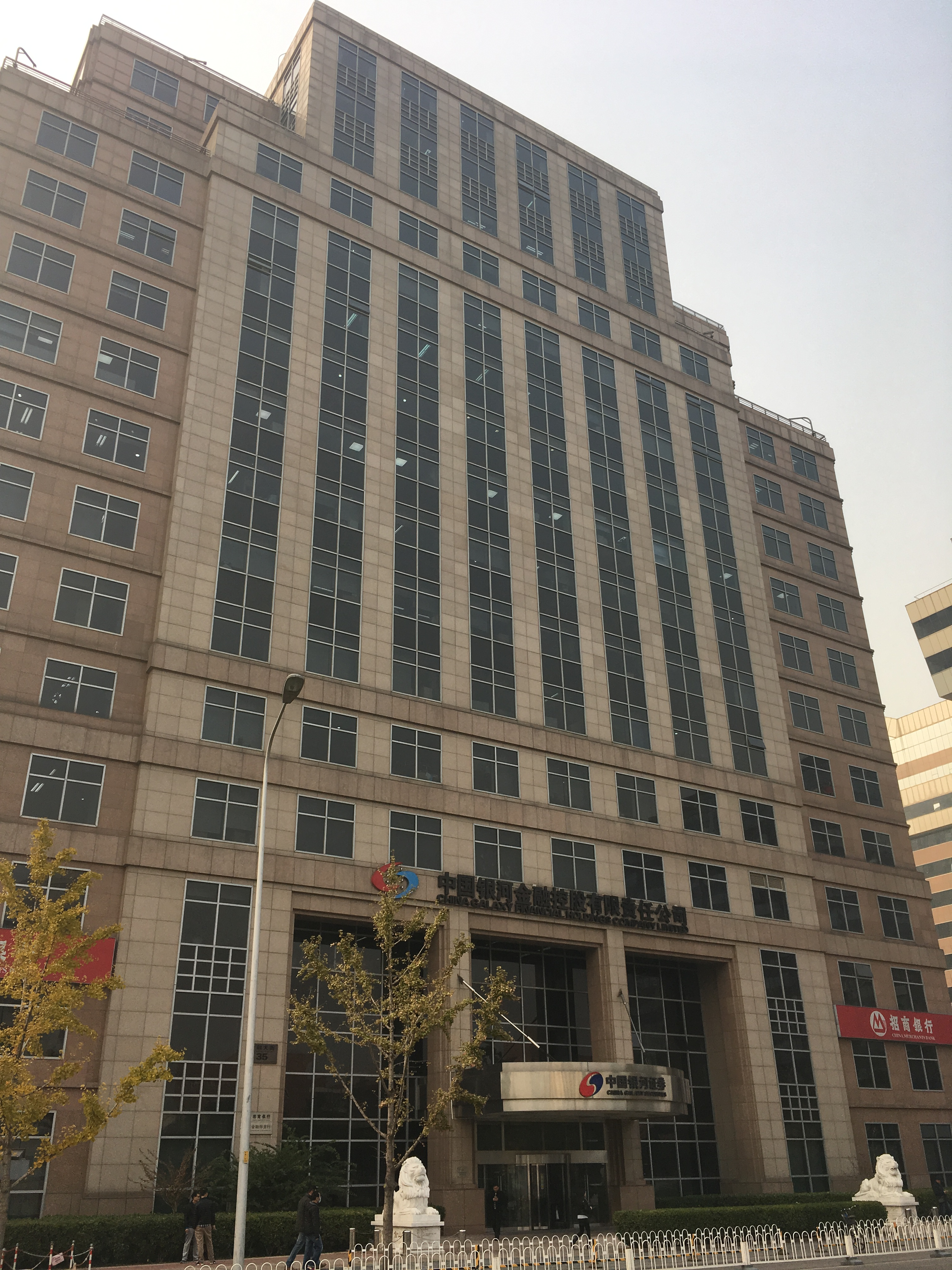 The headquarter of China Galaxy Securities in Beijing.